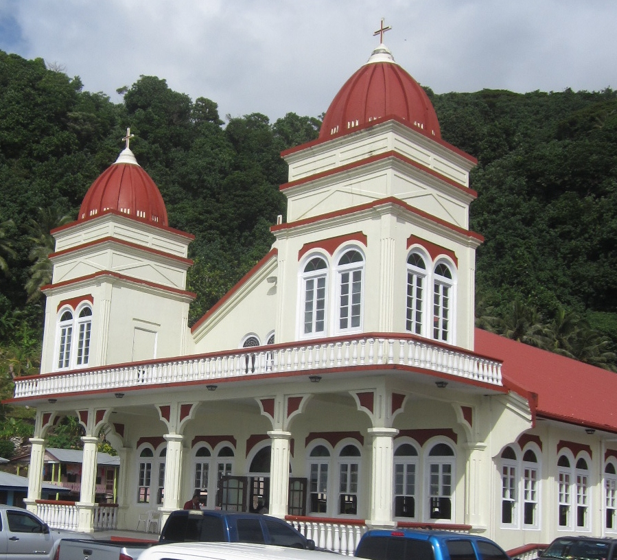 One of Sampa's many churches